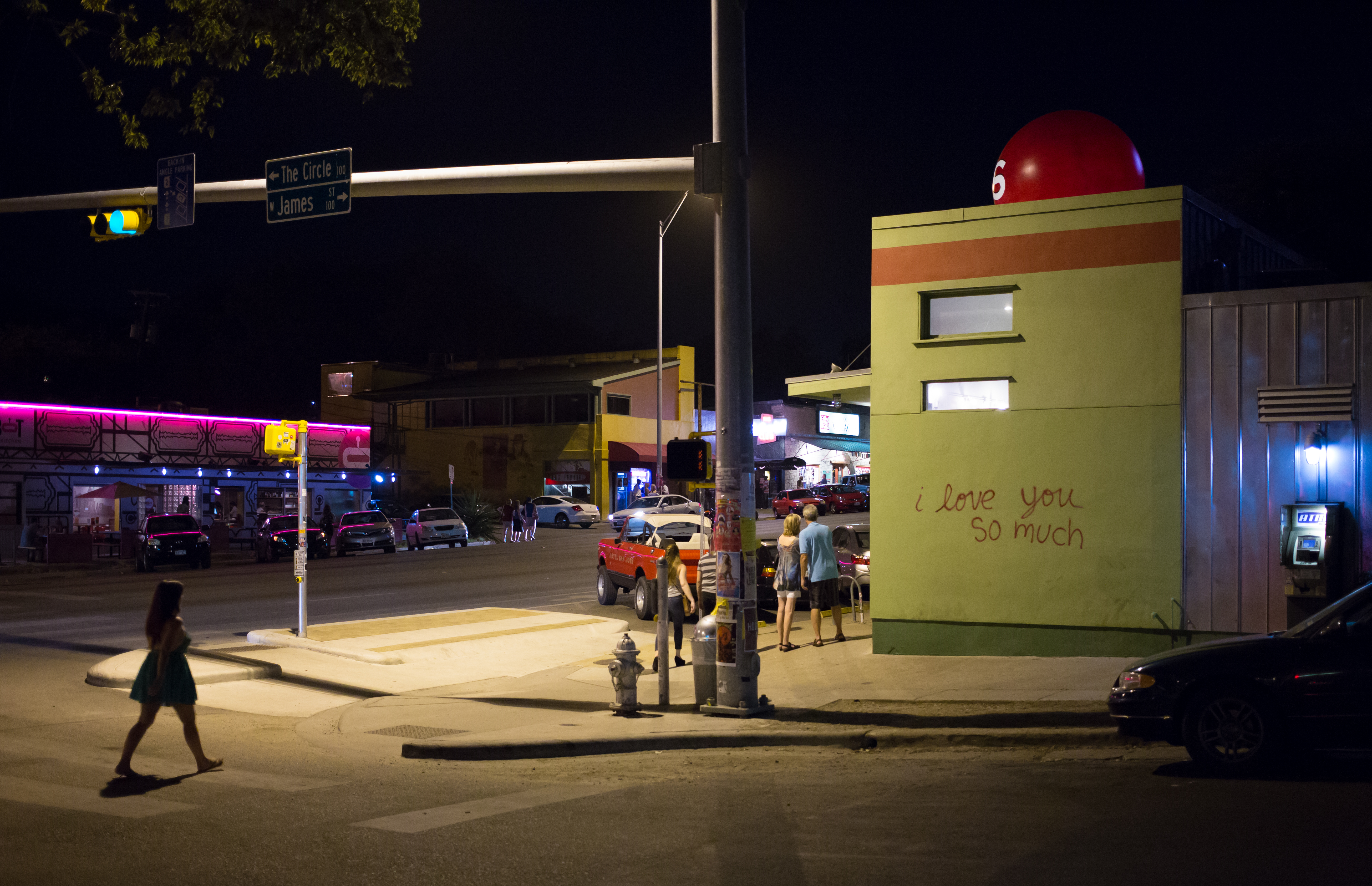 Night view with graffiti, South Congress, Austin, TX